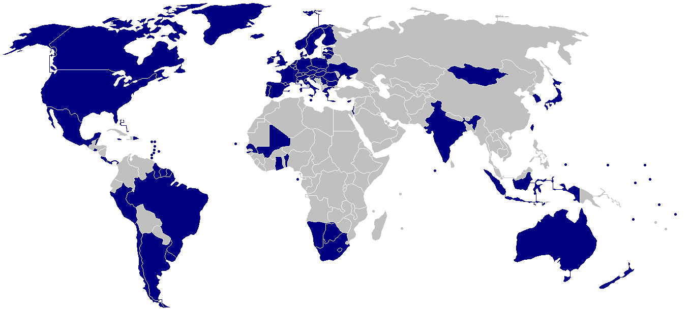 A map of the world with countries identified as "free" by Freedom House's 2008 Freedom in the World report highlighted. Countries highlighted are: Andorra, Antigua and Barbuda, Argentina, Australia, Austria, the Bahamas, Barbados, Belgium, Belize, Benin, Botswana, Brazil, Bulgaria, Canada, Cape Verde, Chile, Costa Rica, Croatia, Cyprus, the Czech Republic, Denmark, Dominica, the Dominican Republic, El Salvador, Estonia, Finland, France, Germany, Ghana, Greece, Grenada, Guyana, Hungary, Iceland, India, Indonesia, Ireland, Israel, Italy, Jamaica, Japan, Kiribati, Latvia, Lesotho, Liechtenstein, Lithuania, Luxembourg, Mali, Malta, the Marshall Islands, Mauritius, Mexico, Micronesia, Monaco, Mongolia, Namibia, Nauru, the Netherlands, New Zealand, Norway, Palau, Panama, Peru, Poland, Portugal, Romania, Saint Kitts and Nevis, Saint Lucia, Saint Vincent and the Grenadines, Samoa, San Marino, Sao Tome and Principe, Senegal, Serbia, Slovakia, Slovenia, South Africa, South Korea, Spain, Suriname, Switzerland, Taiwan, Trinidad and Tobago, Tuvalu, Ukraine, the United Kingdom, the United States, Uruguay and Vanuatu.